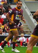 Tonie Carroll